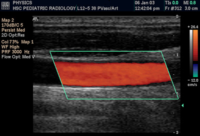 Medical colour Doppler of common carotid artery By Daniel W. Rickey 2006